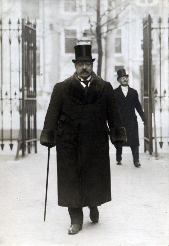 Mr. J.A. Loeff, lid van het college van curatoren aan de Universiteit van Leiden, gaat het Academiegebouw van de Universiteit Leiden binnen. Op de achtergrond rechts een onbekende man. (1917) Johannes Alouisius Loeff was ook Tweede Kamerlid, voorzitter van de RKSP en Staatsraad.